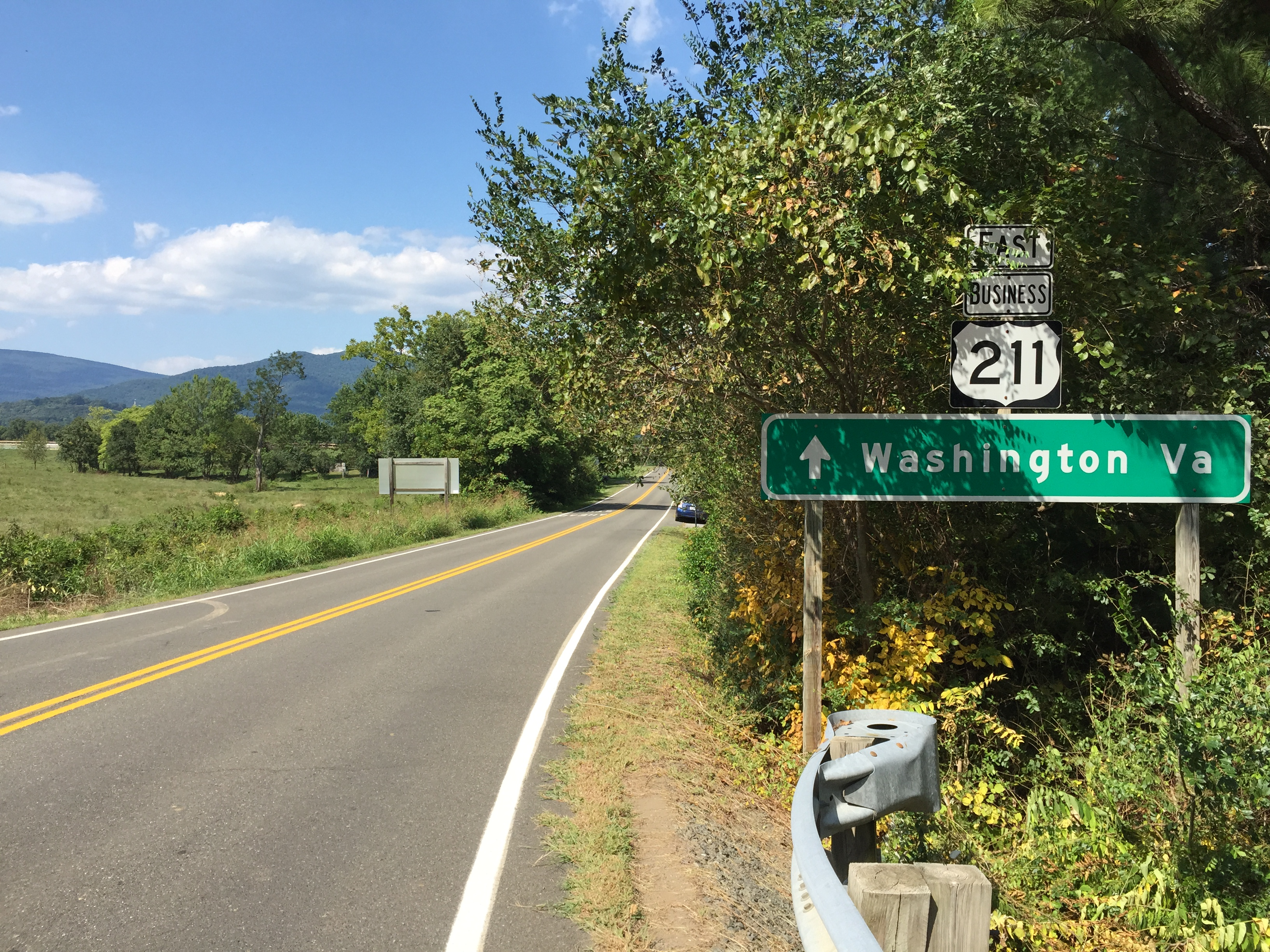 View east along U.S. Route 211 Business and north along U.S. Route 522 Business (Main Street) at U.S. Route 211 and U.S. Route 522 (Lee Highway) just southwest of Washington in Rappahannock County, Virginia